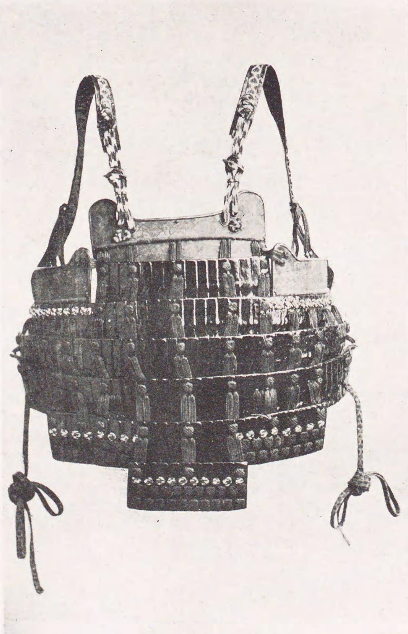 A hara-ate armour of Matsura family which Ashikaga Yoshinori presented. A collection of Matsura Historical Museum.